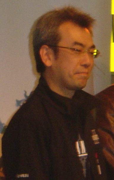 Akitoshi Kawazu at the Final Fantasy XII UK Launch